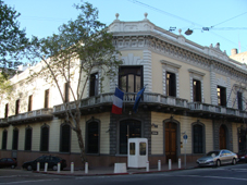 french embassy in Uruguay